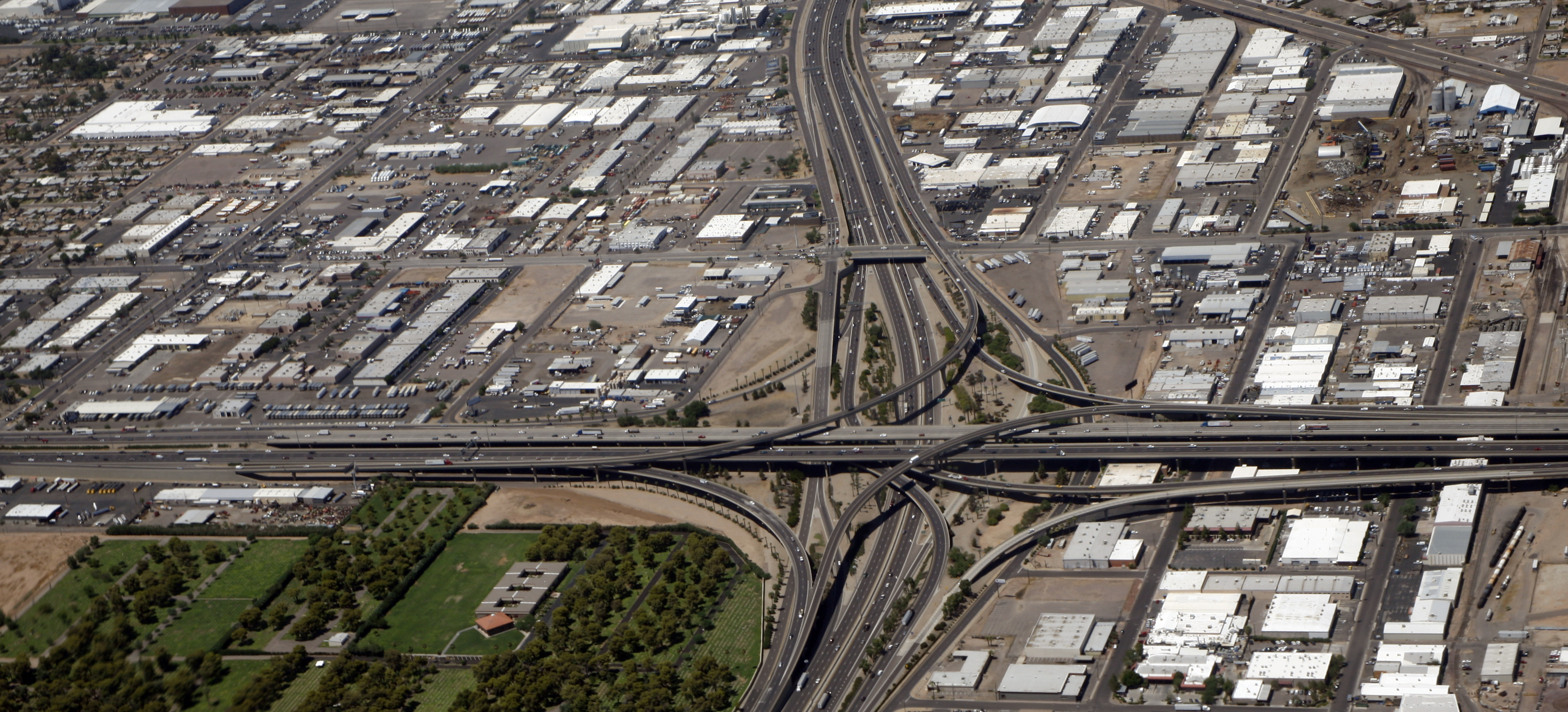 "The Stack" of Interstates 17 and 10 is at center. I-10 cuts across the Middle of the shot. Greenwood Memorial Lawn Cemetery is on the bottom left.